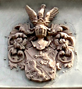 Coat of arms of Trompowsky. Coat of arms is on the house Riga, Citadeles street, 2. Architect Edmund von Trompowsky.